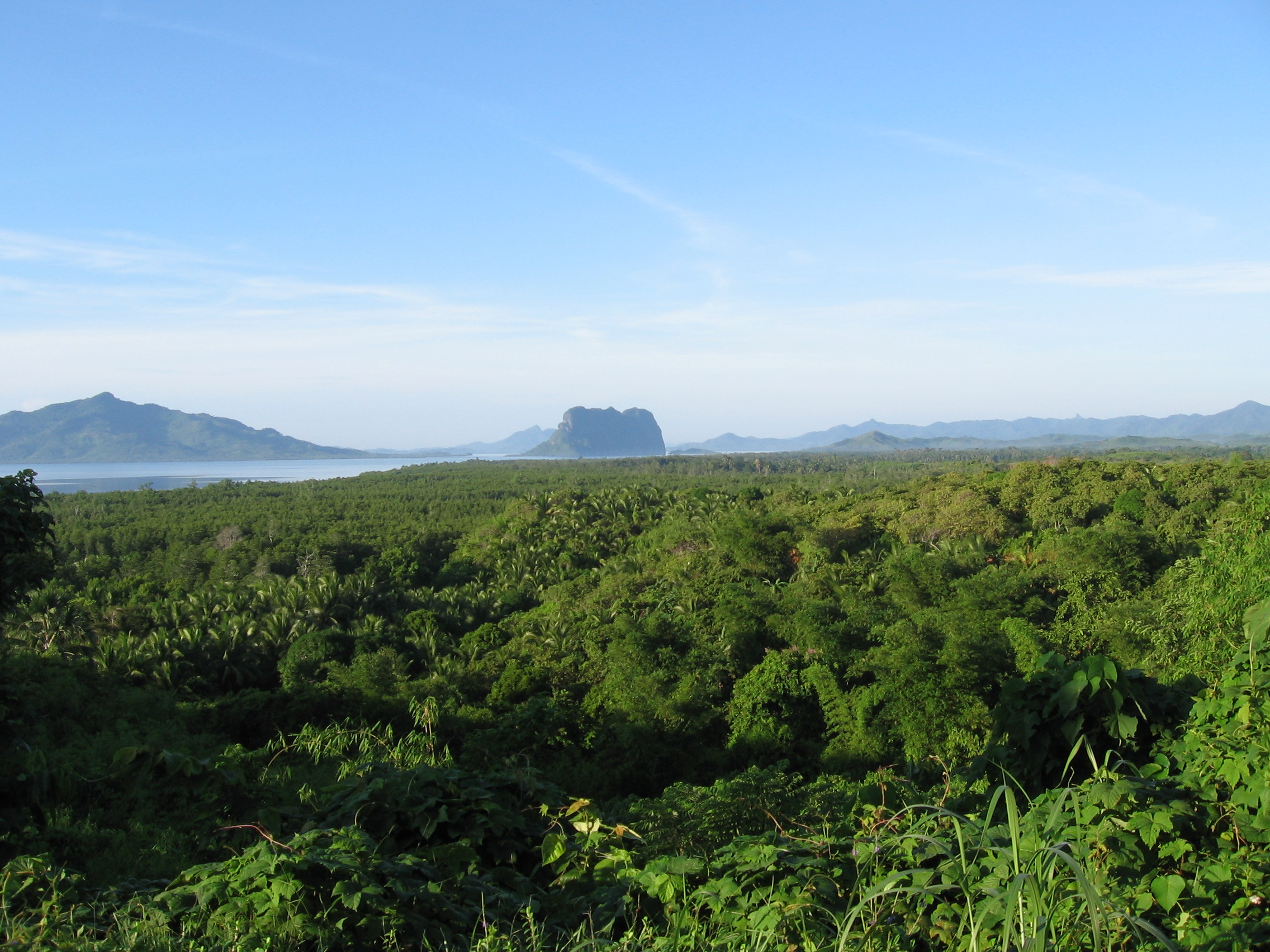 Mangrove forest in the Philippines that was protected by a project with Seacology.